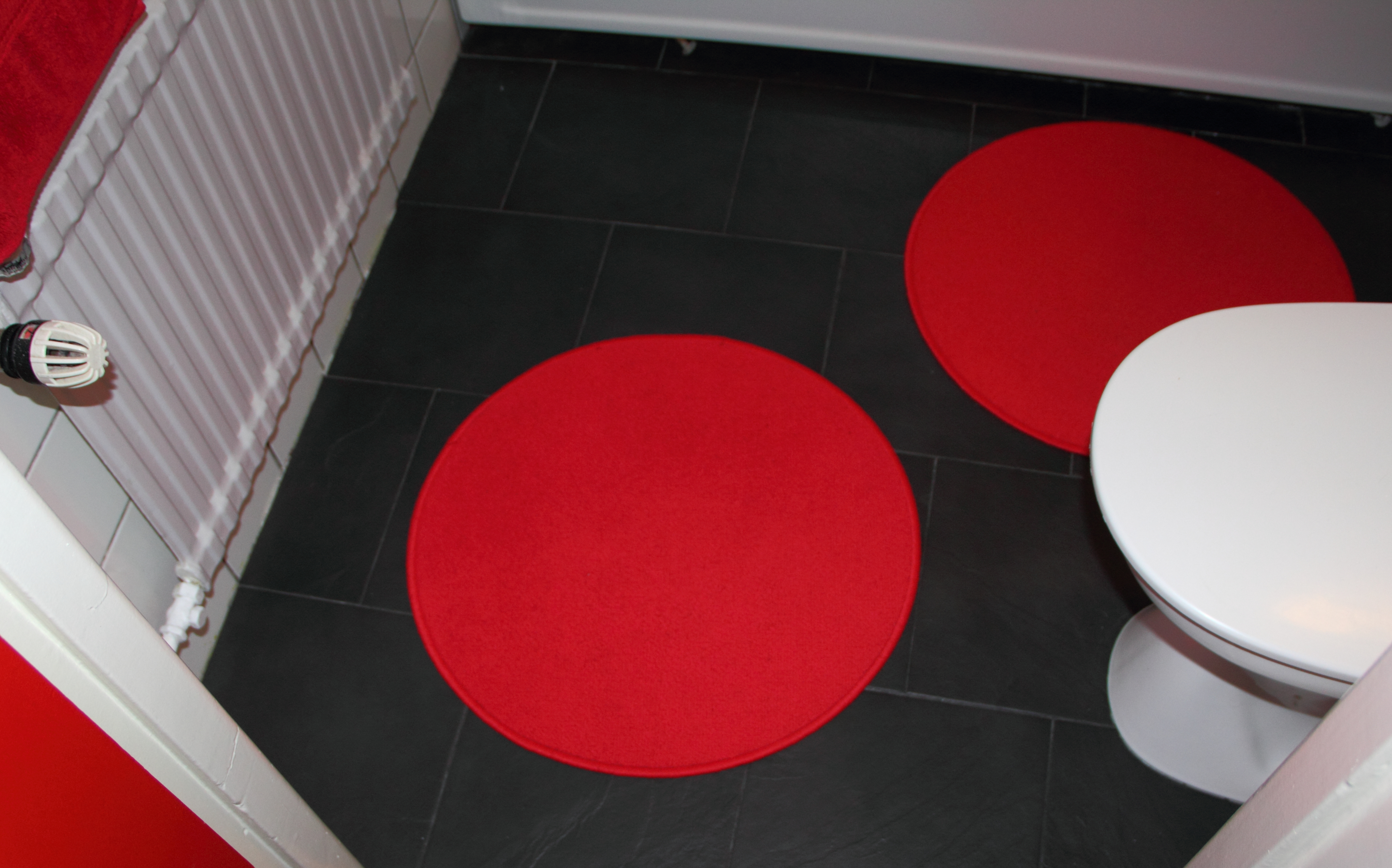 Two carpets in a bathroom